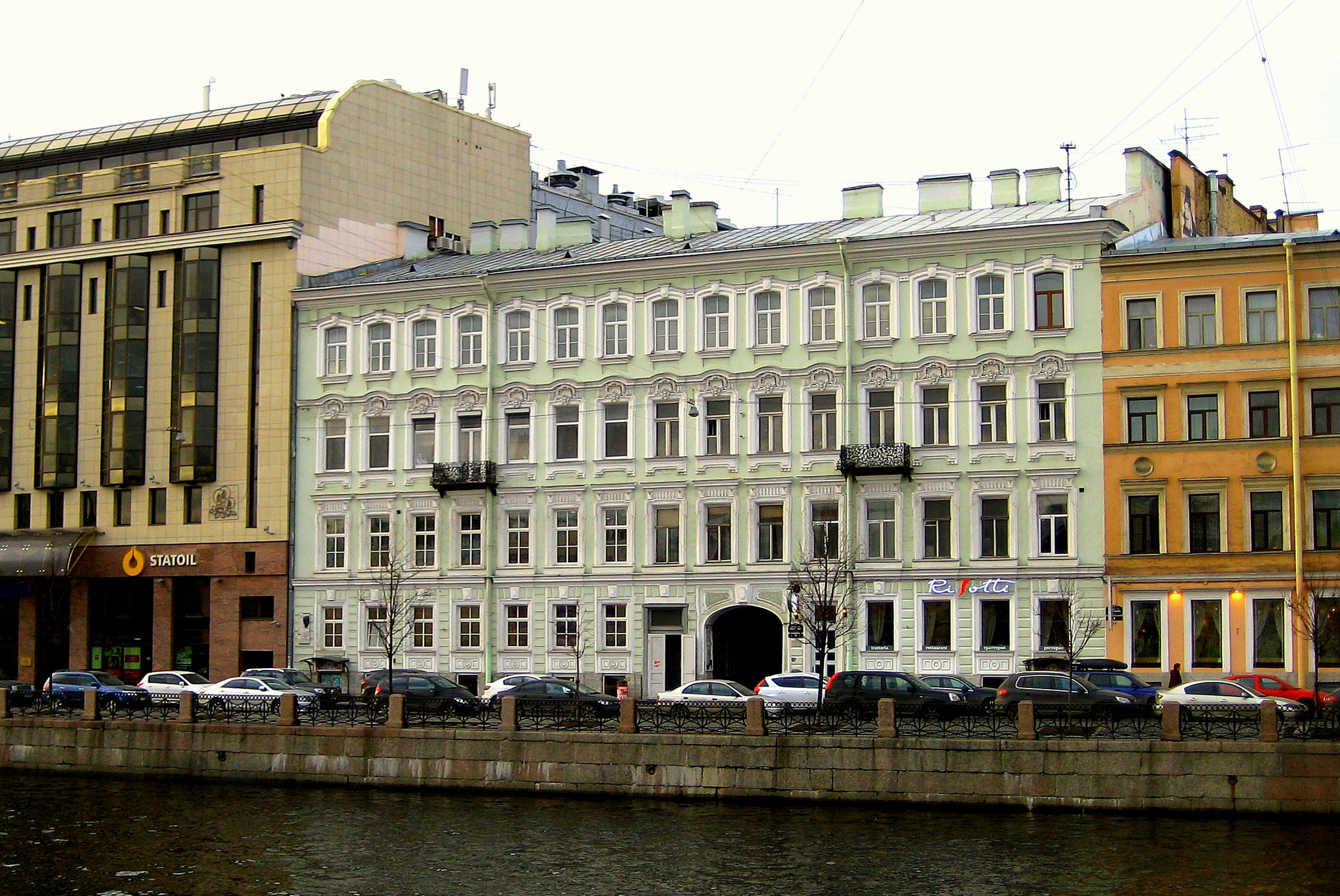 Profitable house (architect Grebenka NP), 1864. In 1900 - 1906 in the house lived SP Diaghilev (1872-1929) - Russian theater and art figure .: embankment of the Fontanka River, 11. Central District, St. Petersburg.